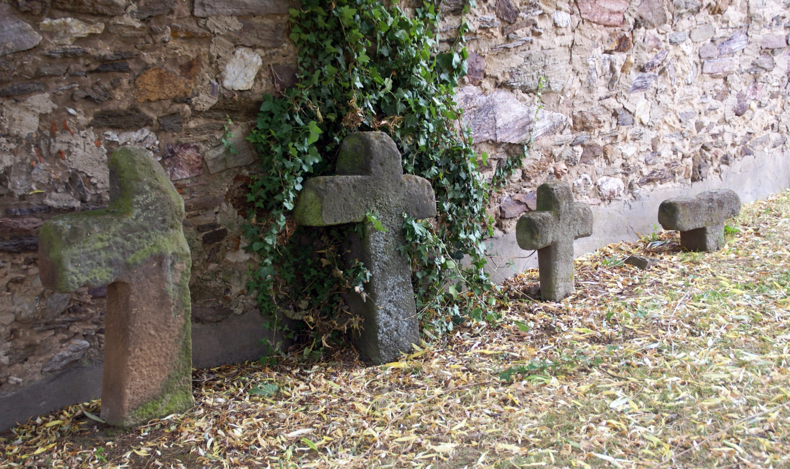 Four expiation crosses at the chapel of Wilgefortis in Hörstein, Kapellenstraße